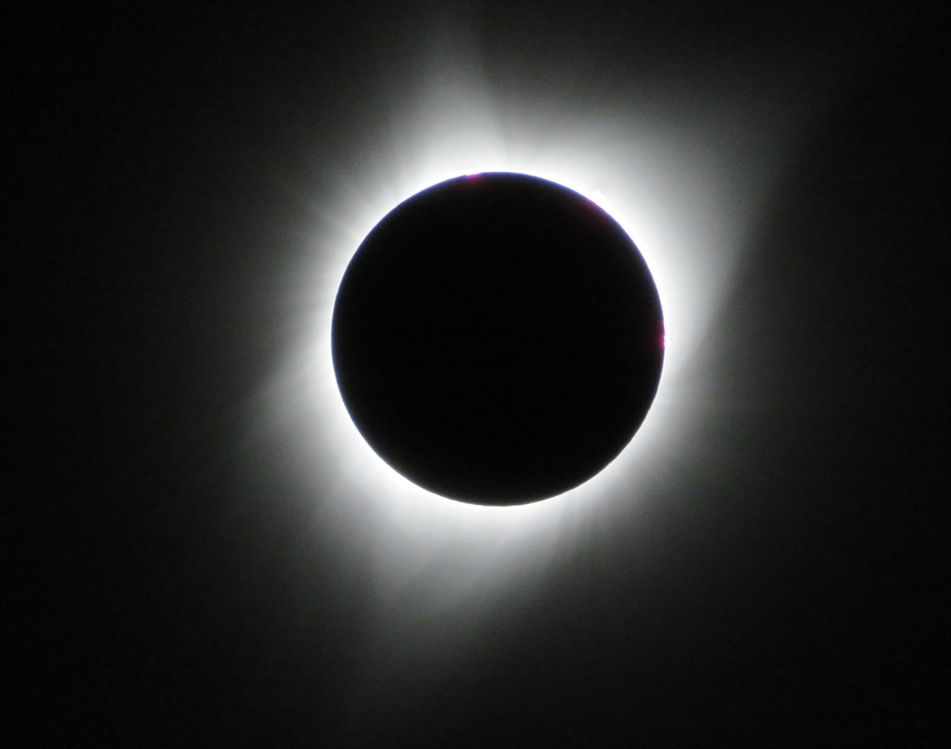 A total solar eclipse viewed from Orin Junction, Wyoming in 2017. The sun's plasma atmosphere, or corona, surrounds the moon's silhouette, with magnetic field lines visible emanating from the north and south poles of the sun (10 o'clock and 4 o'clock positions). Orin Junction is at Exit 126 on Interstate 25, south of Douglas. The picture was taken directly with a pocket digital camera, the Canon SX720 HS, without any filter. The camera was held on a car roof to stabilise the zoomed telephoto image.